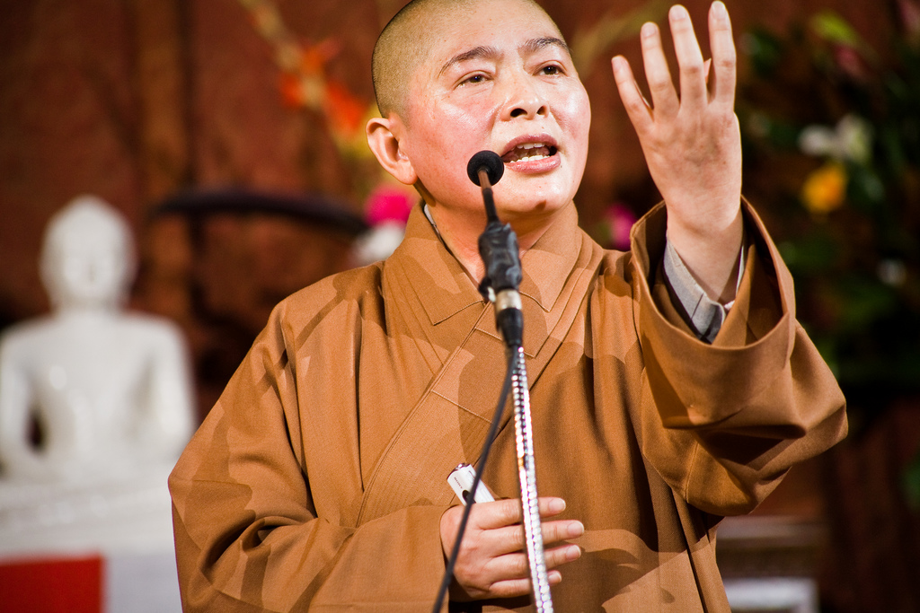 November 9, 2008. Venerable Yifa of Hsi Lai Temple at Meditate NYC, produced by the New York Buddhist Council, at the Church of St Paul and St Andrew, on the Upper West Side of Manhattan.